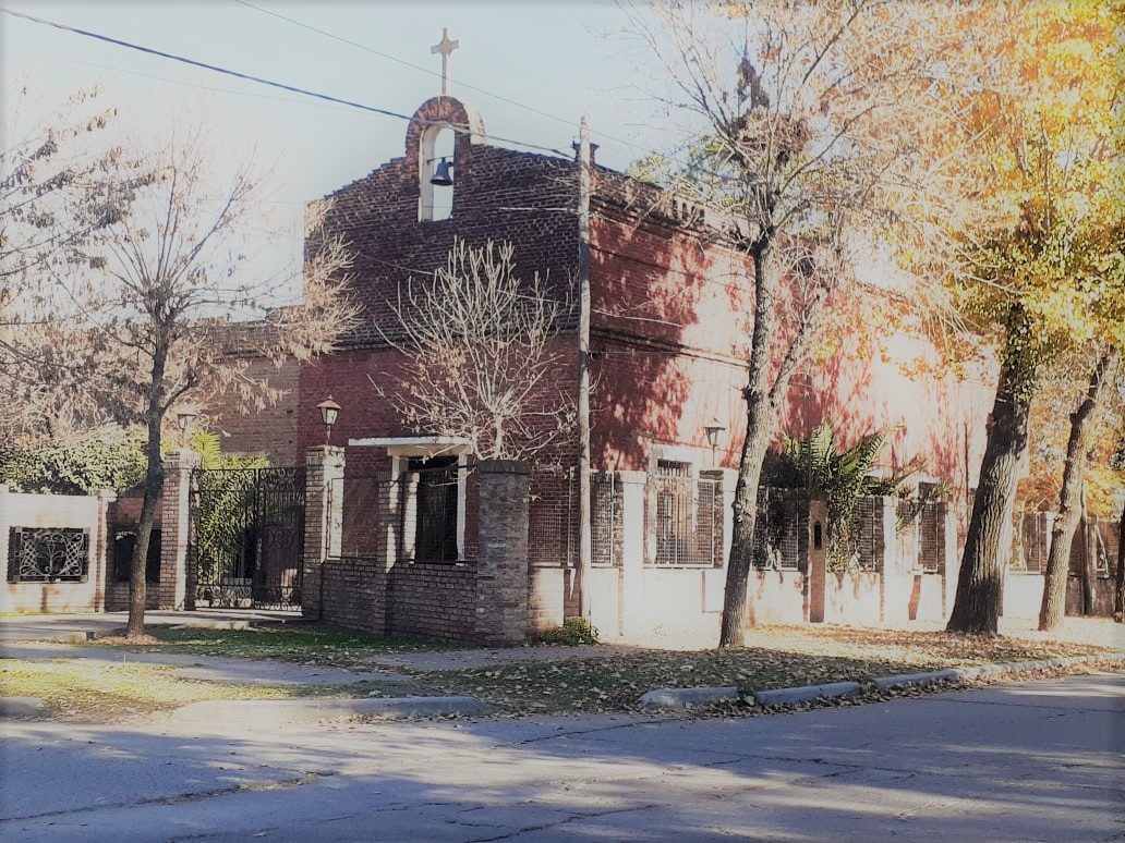 Capilla correspondiente a los primeros años de vida de la cuidad de Justo Daract, provincia de San Luis.